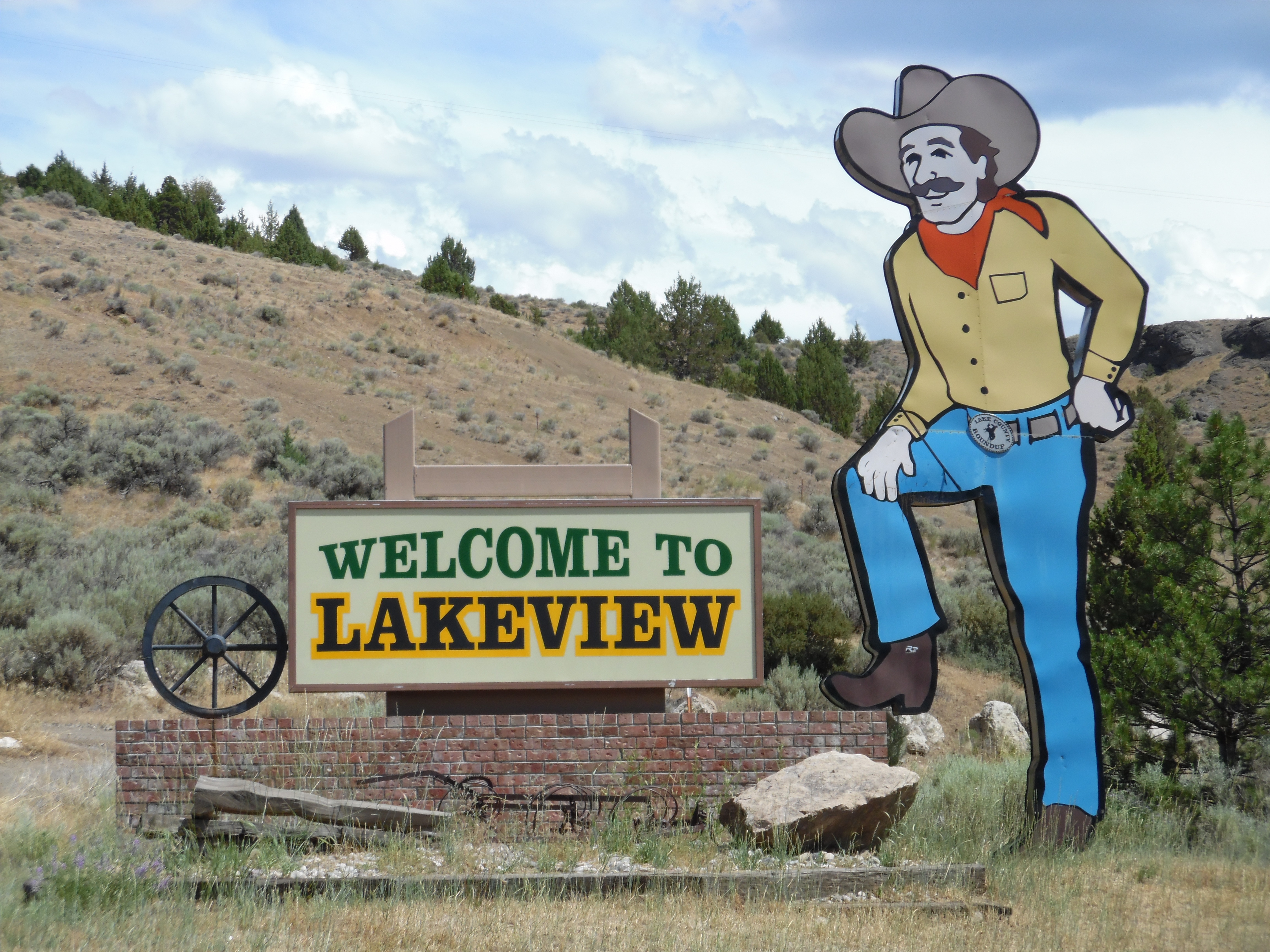 Welcome sign along Highway 395 at the north end of Lakeview, Oregon.